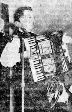 Slavko Avsenik (1929-2015),Slovenian composer and musician